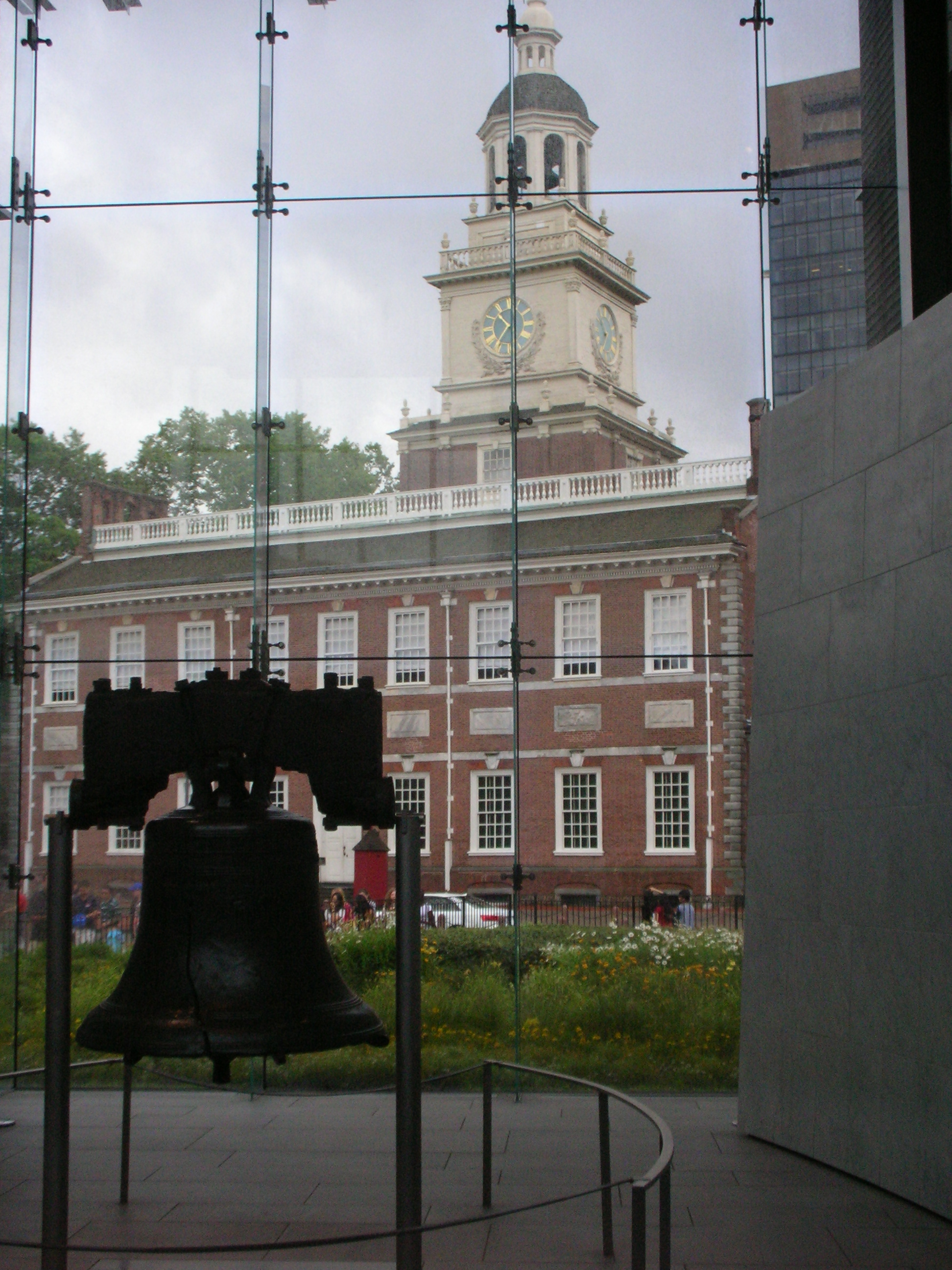 Liberty Bell and Independence Hall in Philadelphia, USA